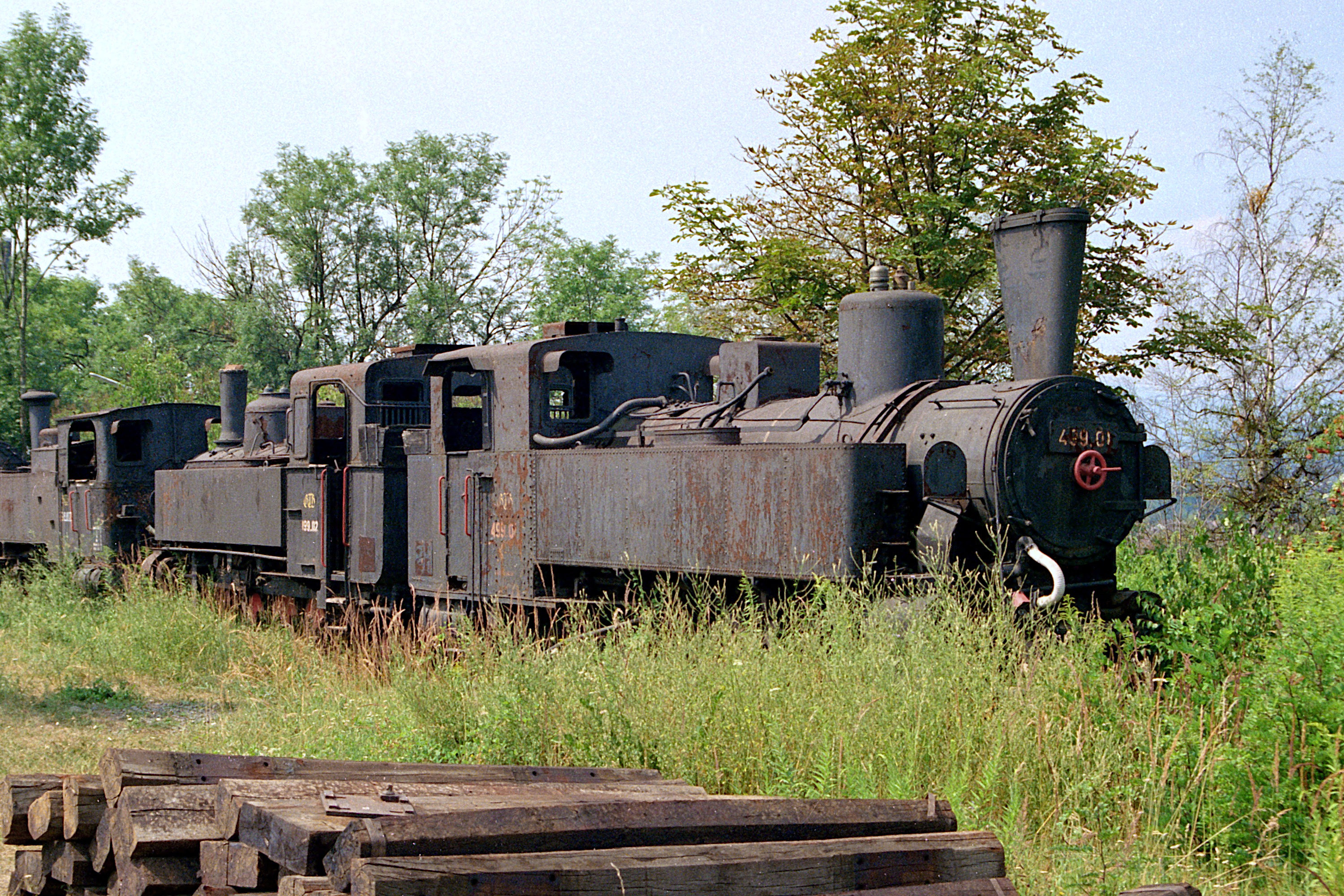 Narrow gauge steam locomotives ÖBB 499.01 and 199.02 (ex Kh.1 and P.2) at the station of the Gurktalbahn heritage railway in Treibach-Althofen